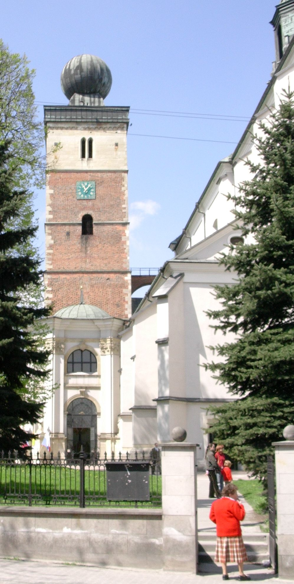 Basilica of the Holy Sepulchre in Miechów, Poland, capital city of Order of the Holy Sepulchre in Poland from XIII to XIX century.